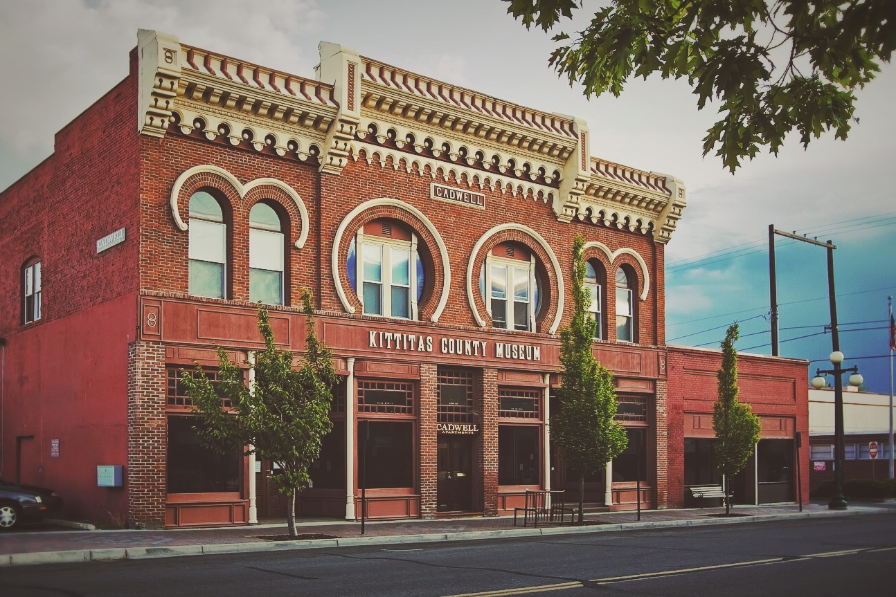 Kittitas County Historical Museum, located in the historic Cadwell Building in downtown Ellensburg. Build in 1889 Location: 114 E. 3rd Ave. Ellensburg, WA 98926 History of the Cadwell Building